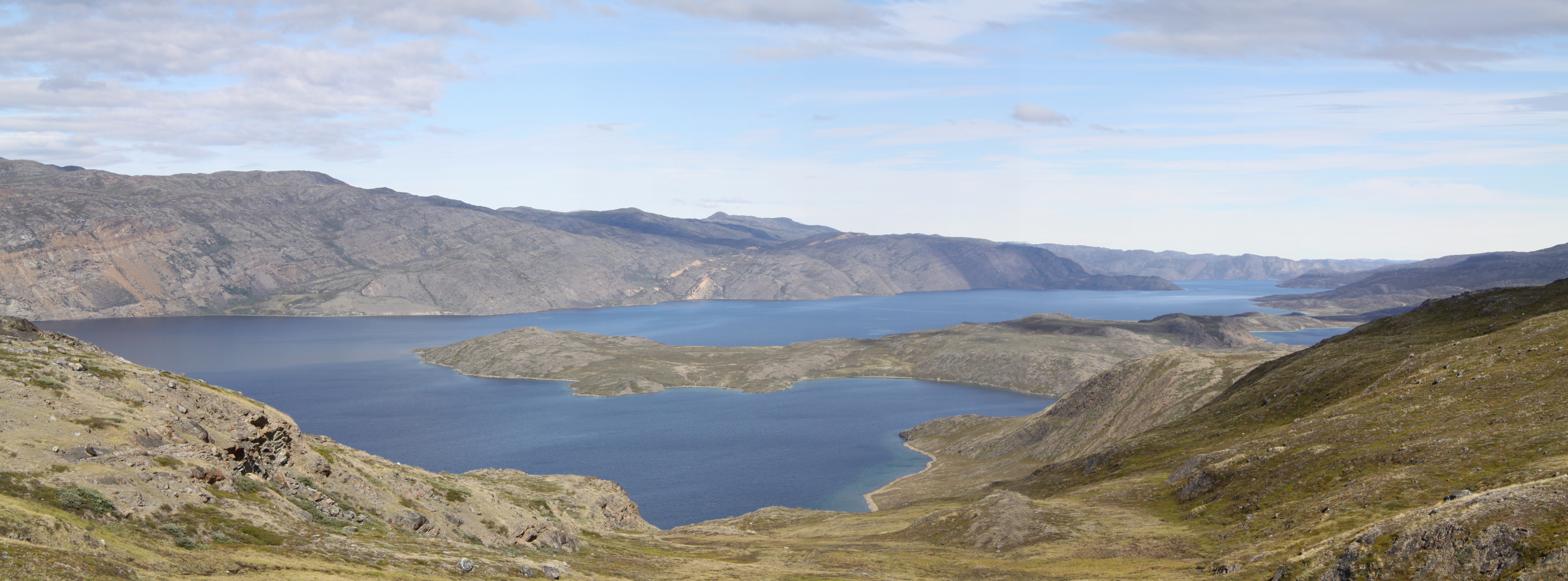 Tasersuaq lake photographed during Arctic Circle Trail, Greenland